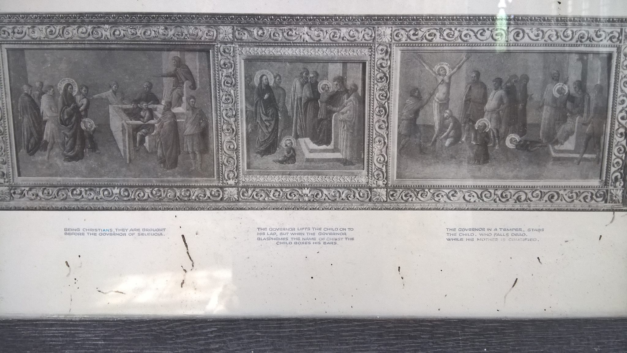 St Cyriac depiction